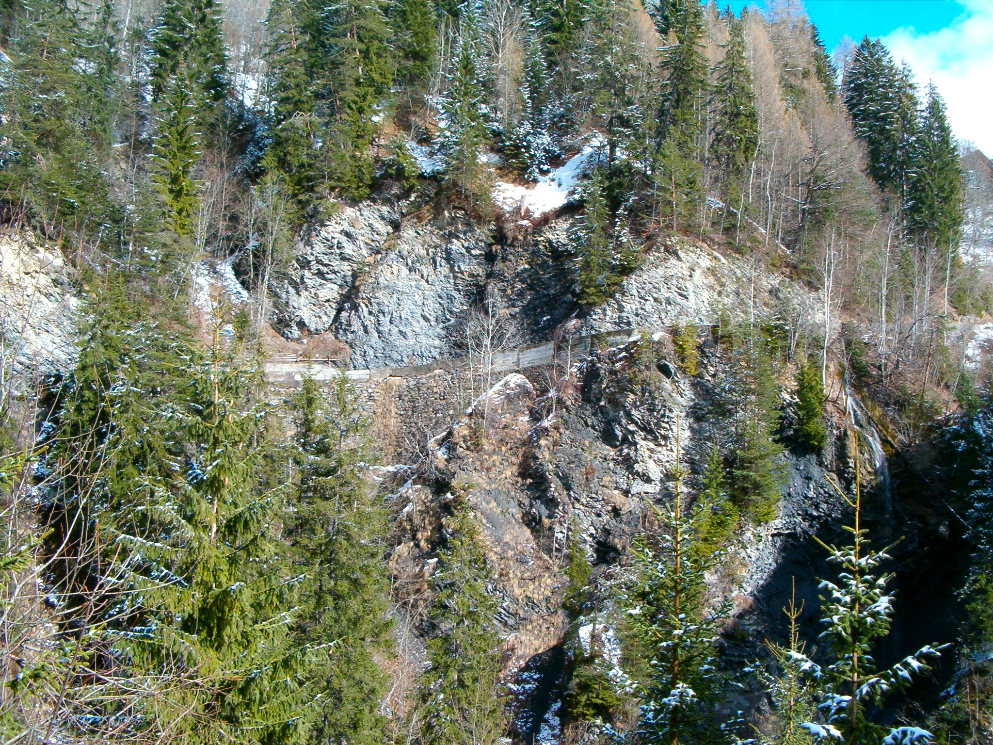 Castielertobel-Valley at Castiel/Switzerland